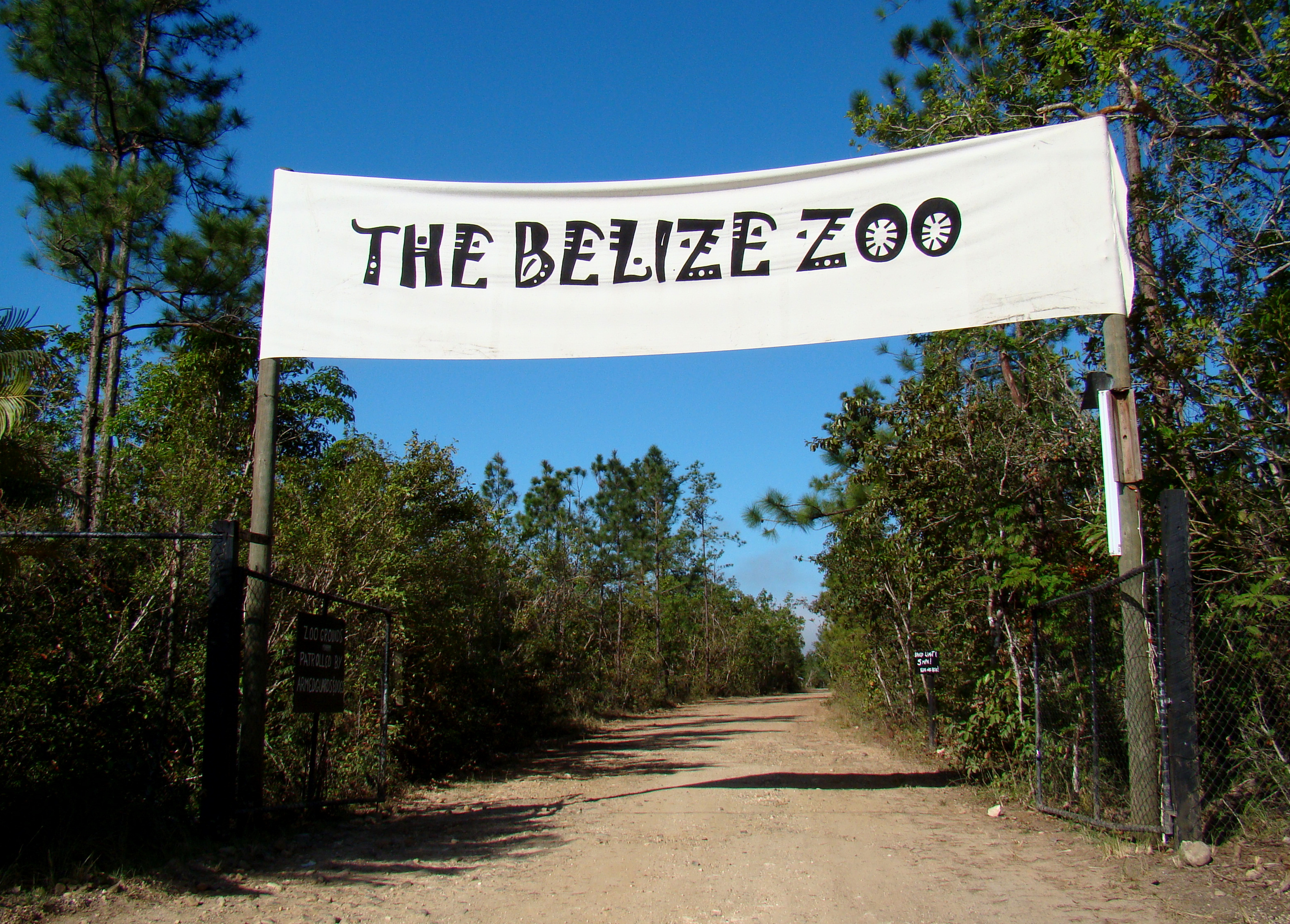 The modest entrance to the Belize Zoo, just a few metres off the Belmopan - Belize City highway.